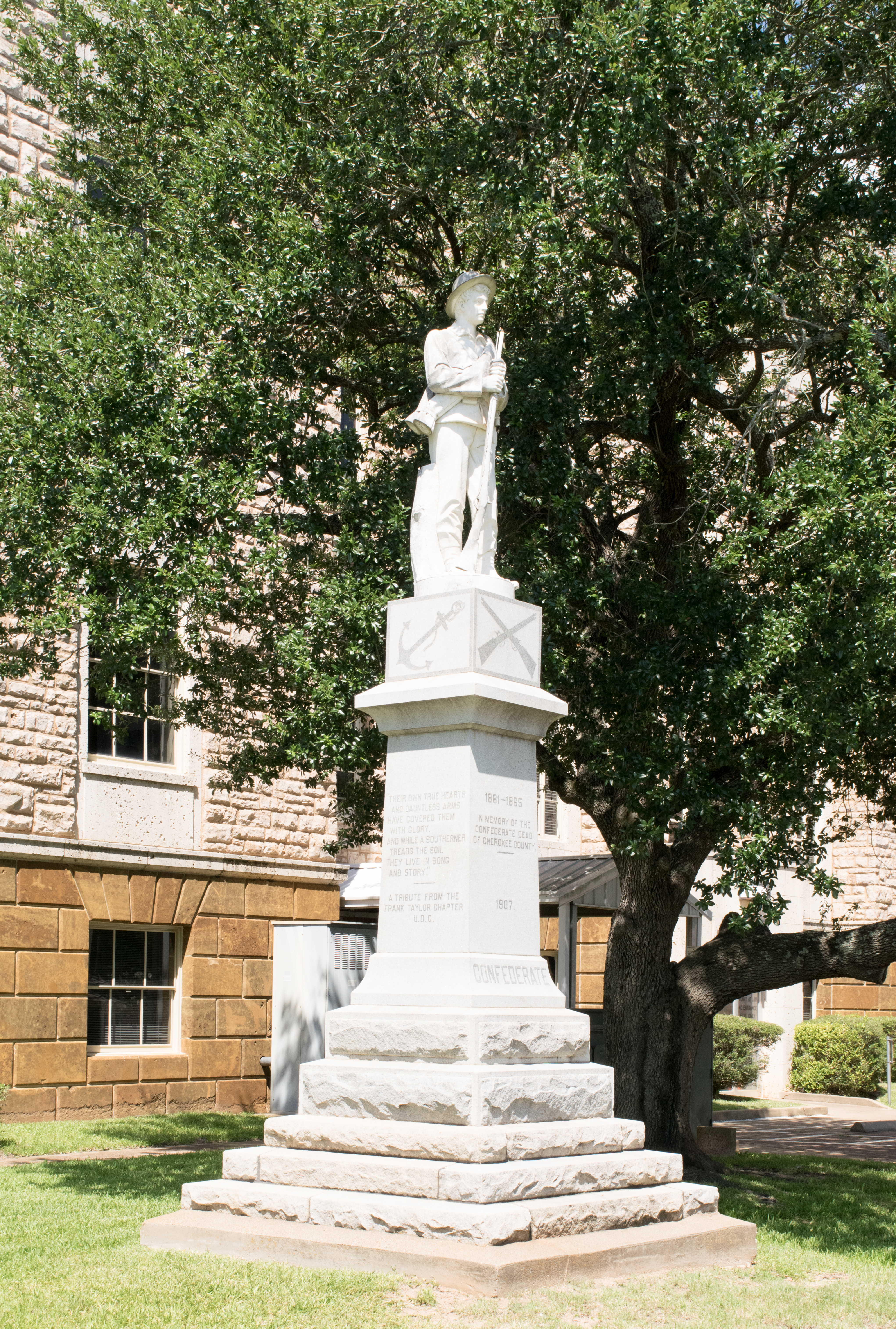 Confederate Monument, Cherokee County Courthouse, Rusk, Texas. The inscription reads: RUSK - CHEROKEE COUNTY 1861 - 1865 IN MEMORY OF THE CONFEDERATE DEAD OF CHEROKEE COUNTY _______ 1907 SOME BENEATH THE SOD OF DISTANT STATES THEIR PATIENT HEARTS HAVE LAID WHERE WITH STRANGERS' HEEDLESS HASTE THEIR UNWATCHED GRAVES WERE MADE. LEST WE FORGET ROLLS IN COUNTY CLERK'S OFFICE THEIR OWN TRUE HEARTS AND DAUNTLESS ARMS HAVE COVERED THEM WITH GLORY AND WHILE A SOUTHERNER TREADS THE SOIL THEY LIVE IN SONG AND STORY A TRIBUTE FROM THE FRANK TAYLOR CHAPTER U.D.C.